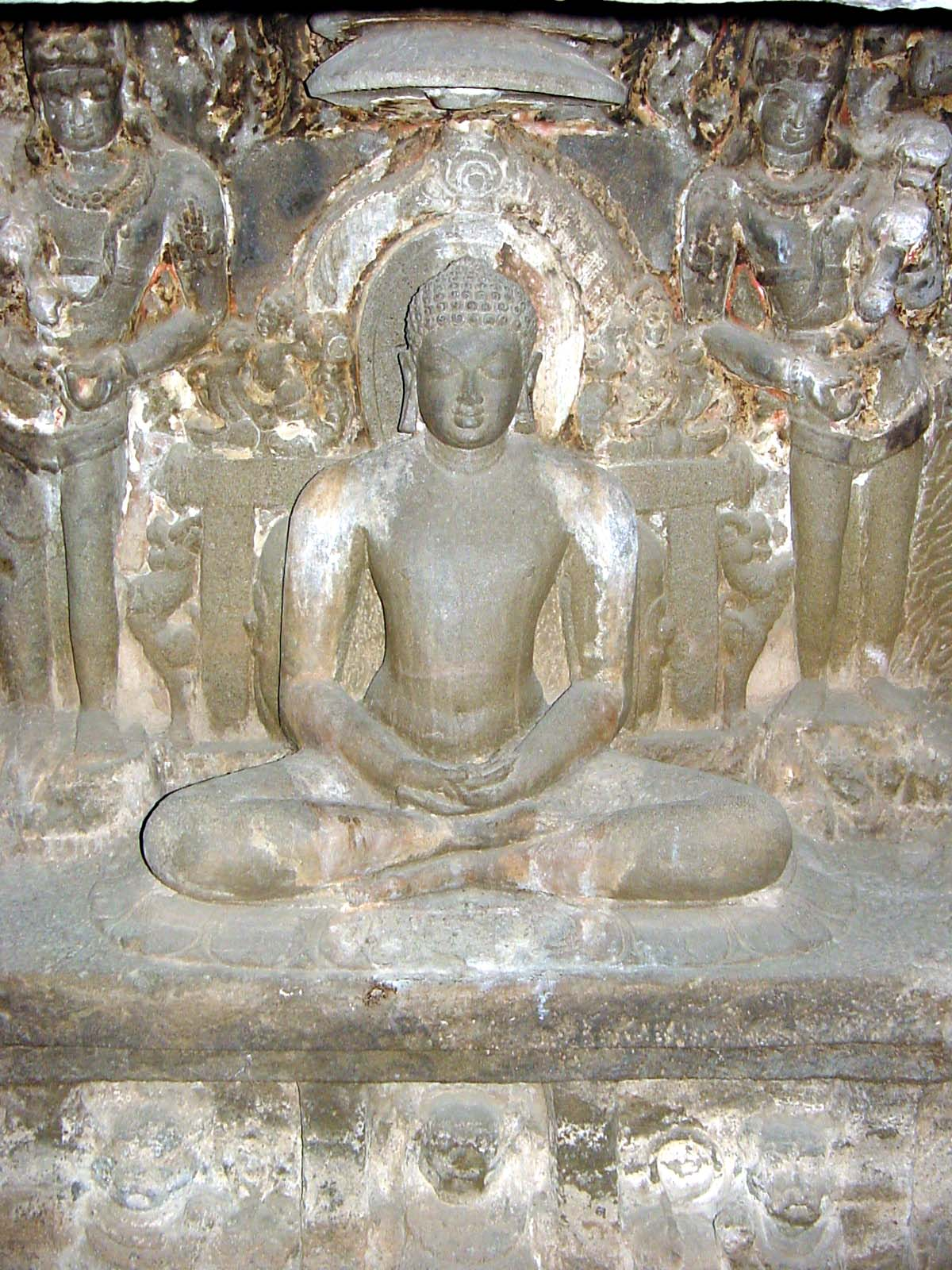 Mahavira. Cave 32, Ellora Mahavira, the historical founder of the Jain religion, is flanked by divinities of prosperity (Matanga, male, photo left) and generosity (Sidaika, female, photo right). Cave 32 dates to the early 9th century. The similarity to Buddhist iconography is obvious, but Jain tirthankaras can be distinguished by the nudity of their figures.